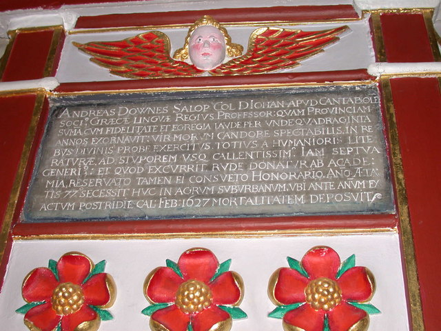 Andrew Downes Memorial, detail, near to Coton, Cambridgeshire, Great Britain. Close-up of the inscription on TL4058 : Andrew Downes Memorial, St Peter's Church